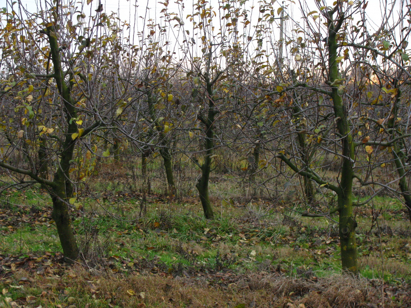 Apple orchard in Maladziečna District, Belarus